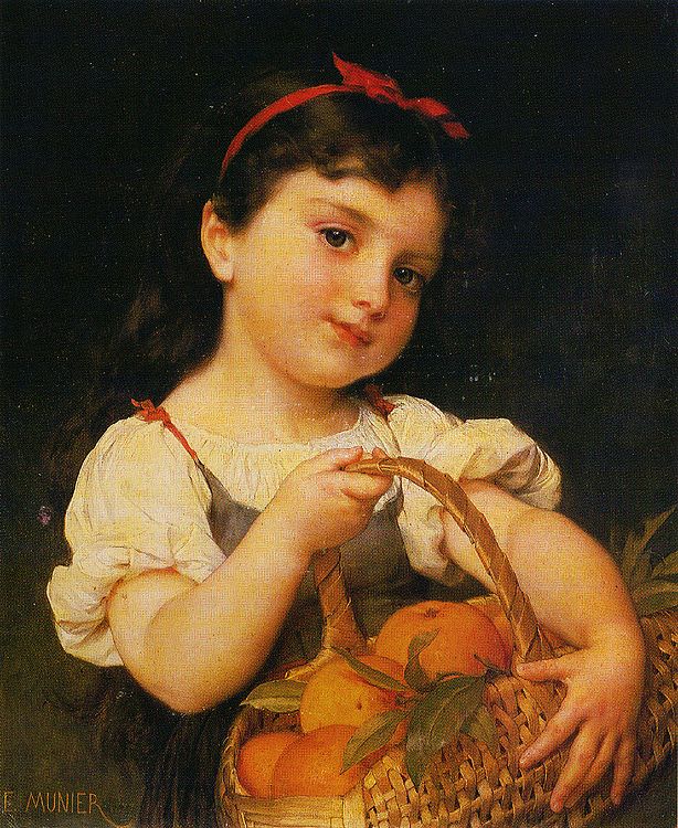 Young girl with a basket of oranges